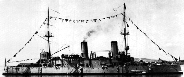 Cruiser USS Olympia in 1919